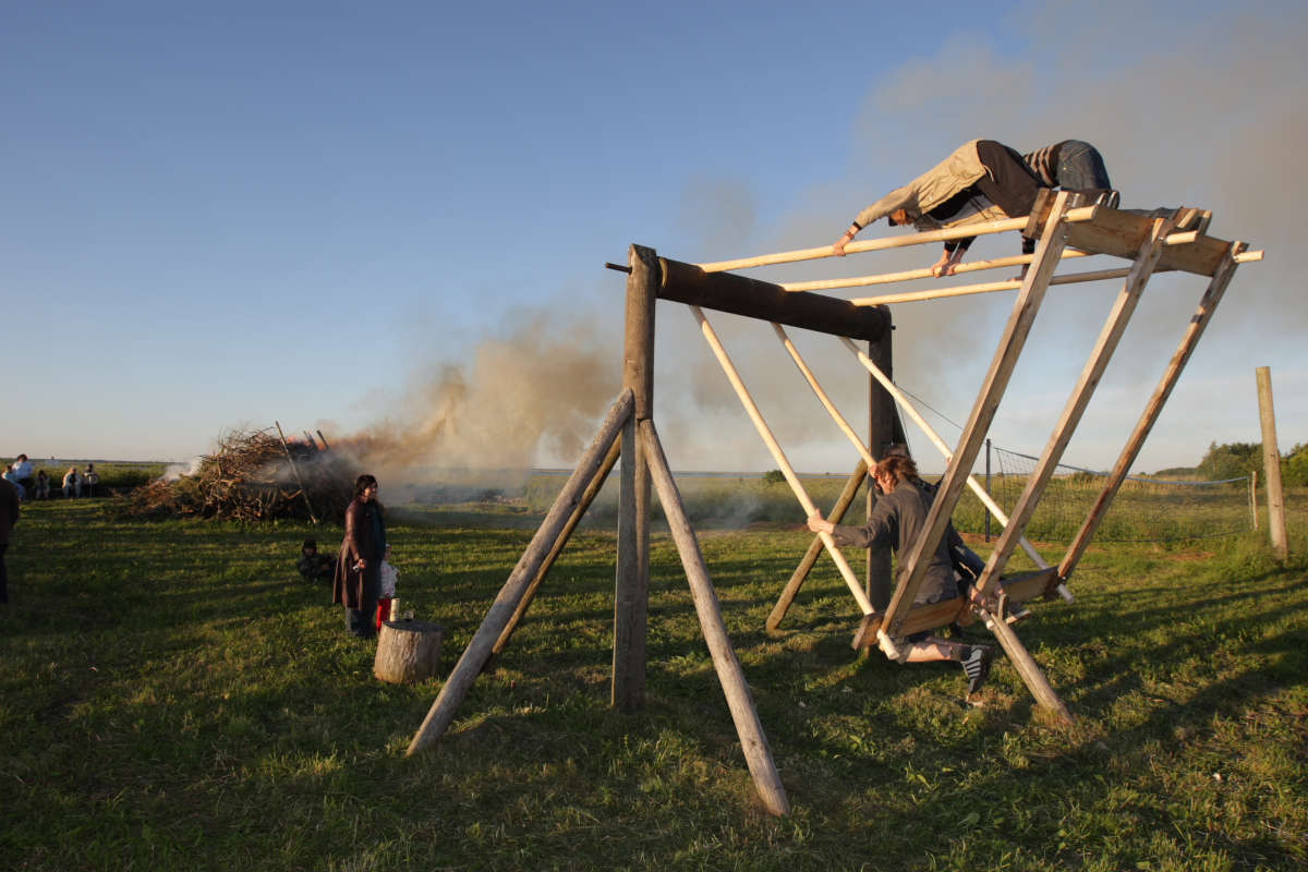 Mid summer fire party at the port of Keemu, Lääne County, Estonia